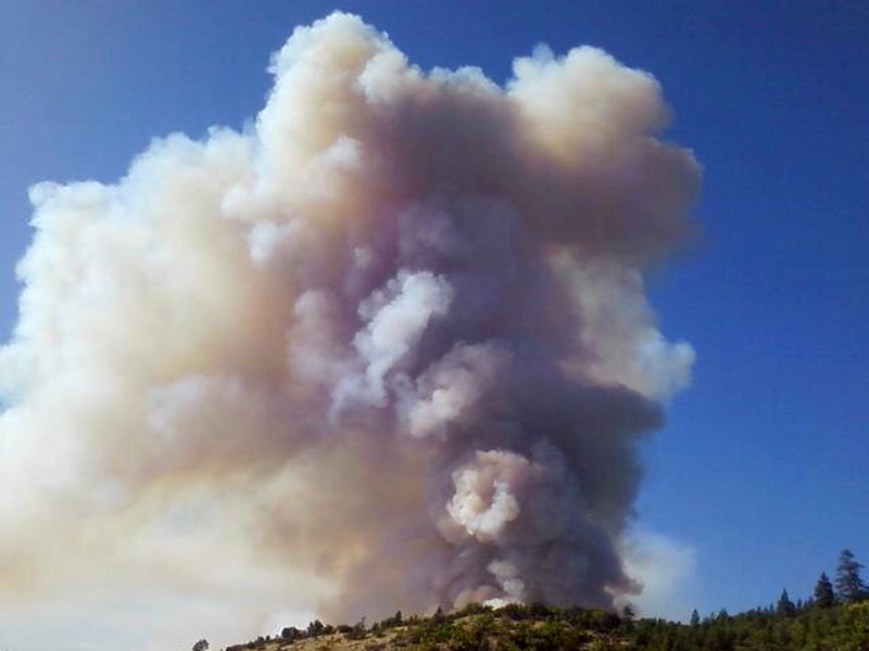 The Deer Ridge Fire on Roxy Ann Peak